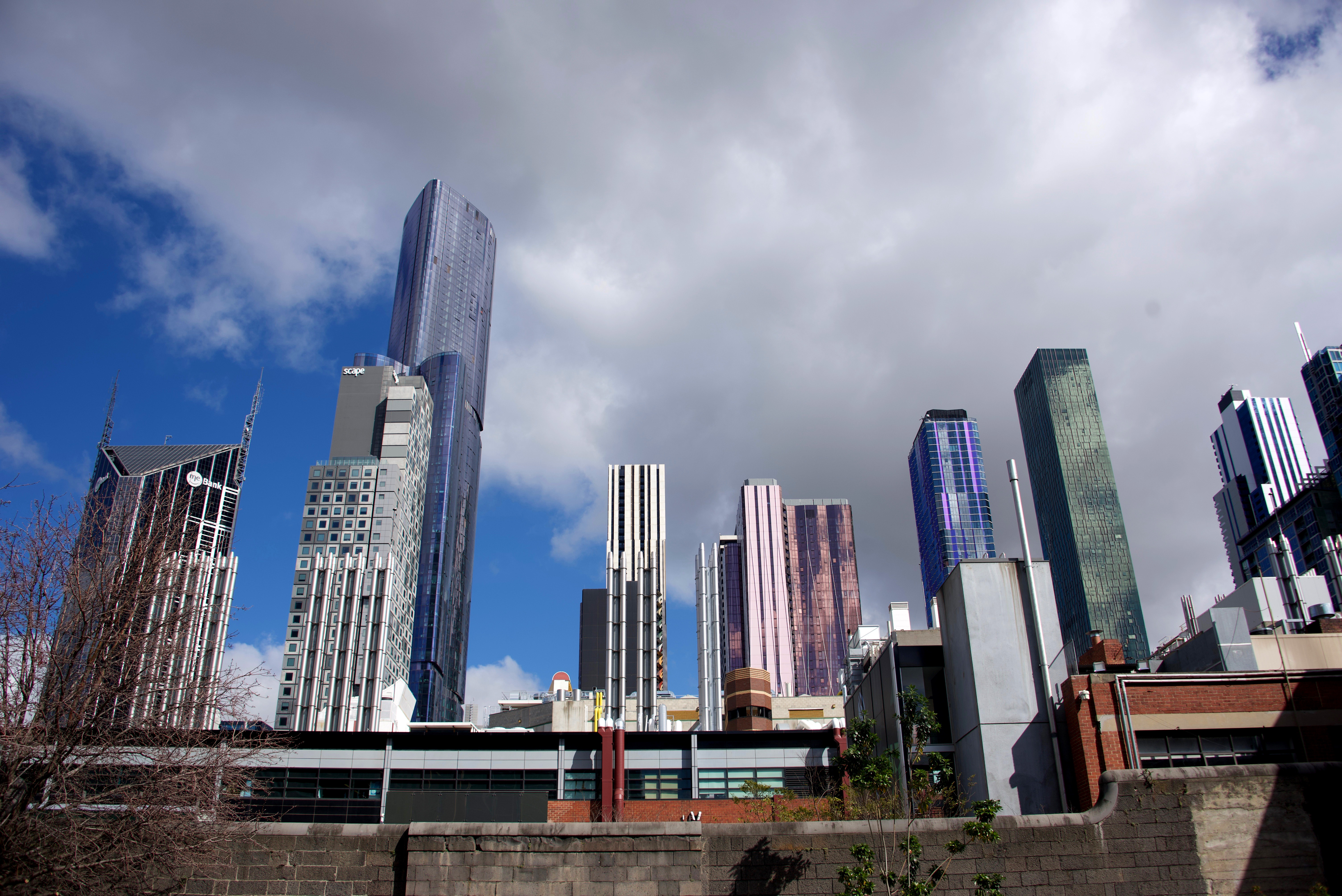 New towers, northern end of Swanston Street Melbourne - viewed from RMIT